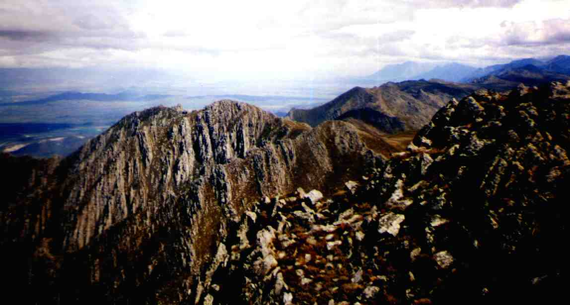 Cape fold belt in the Keerom Koo area, near Robertson, South Africa.